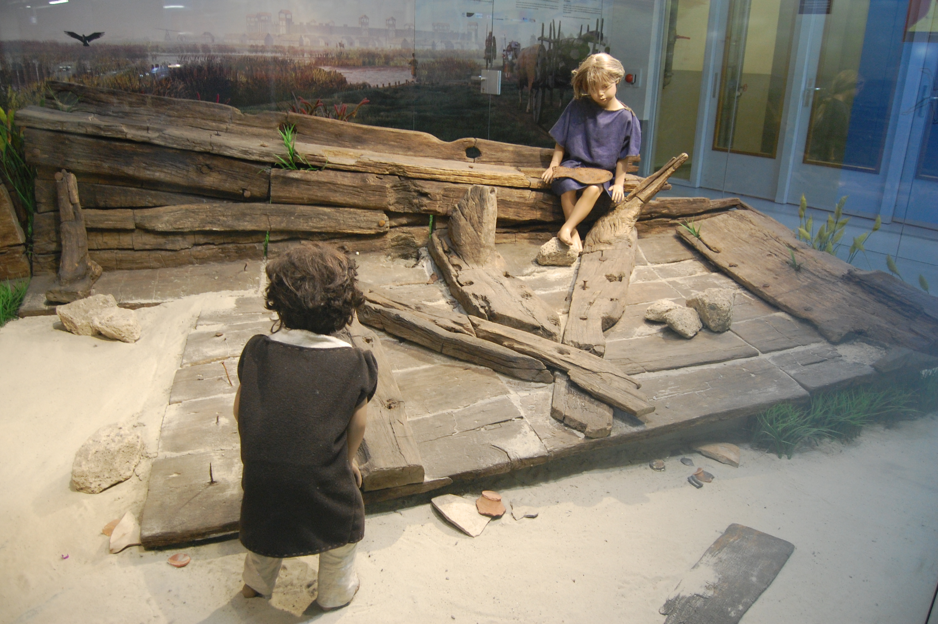 Ancient Roman boat Woerden 7, exhibited in underground parking garage in Woerden